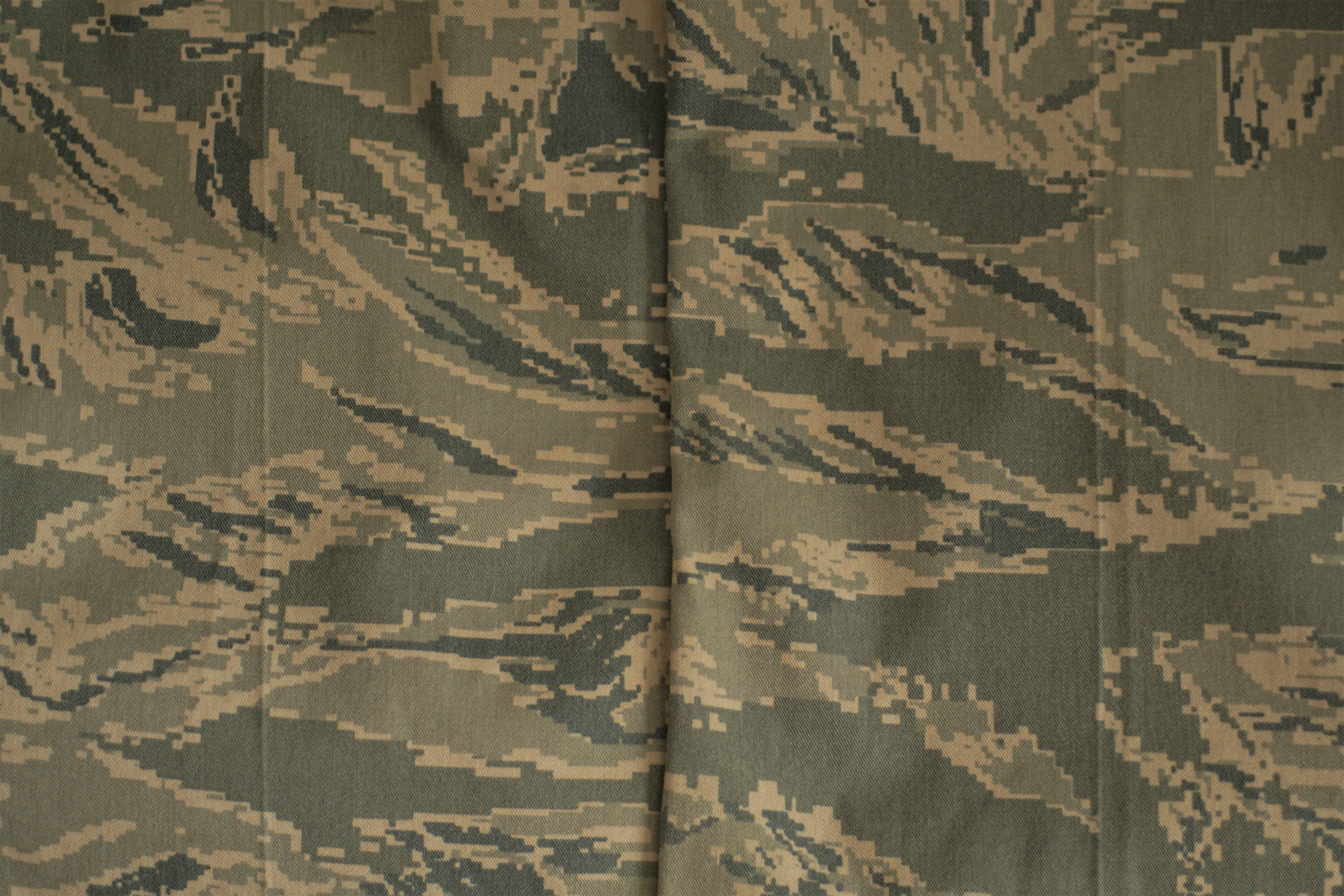 United States Air Force Airman Battle Uniform Camouflage Pattern Tigerstripe camouflage ABU